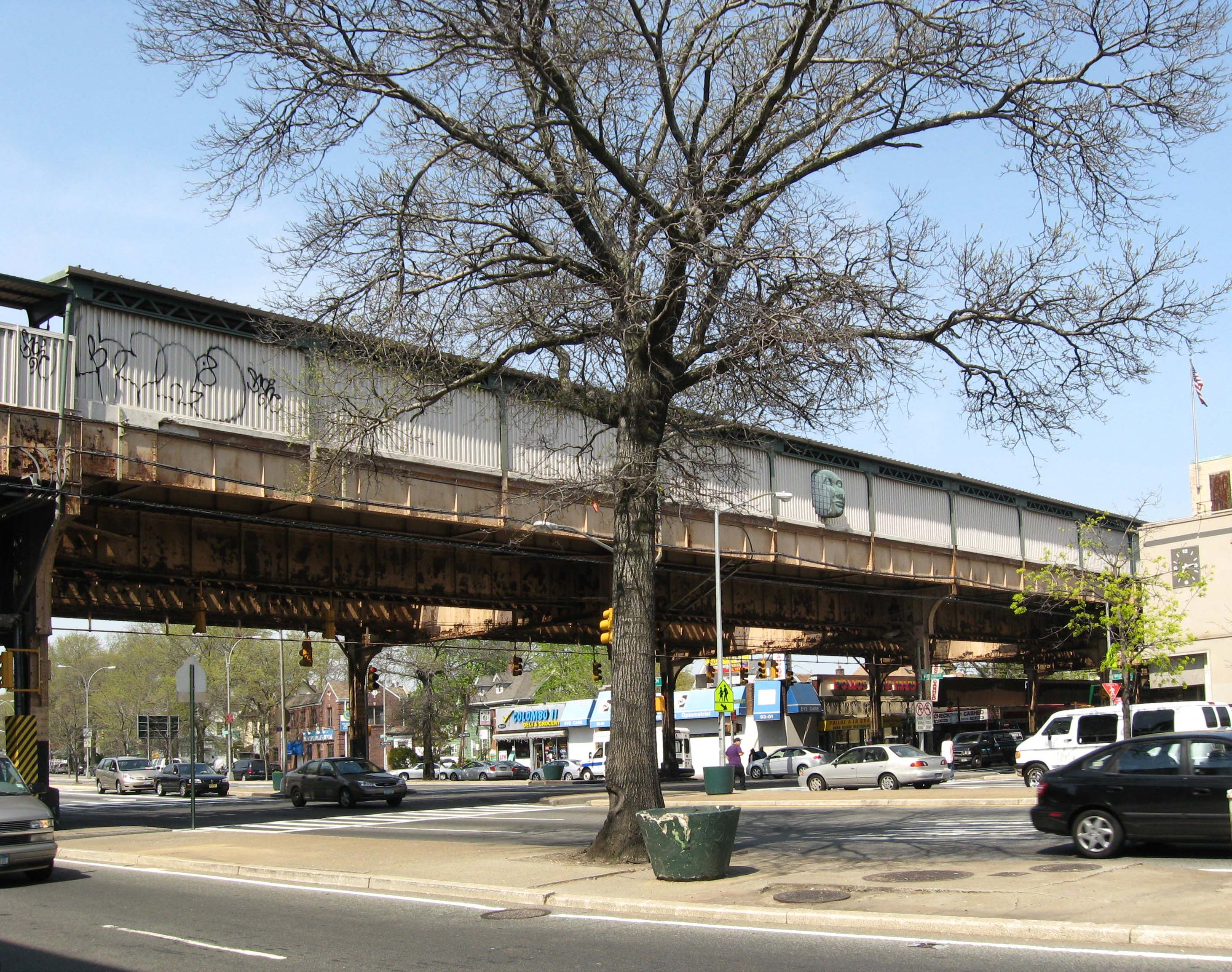 Looking northeast at Woodhaven Boulevard (BMT Jamaica Line) station on a sunny springtime afternoon.